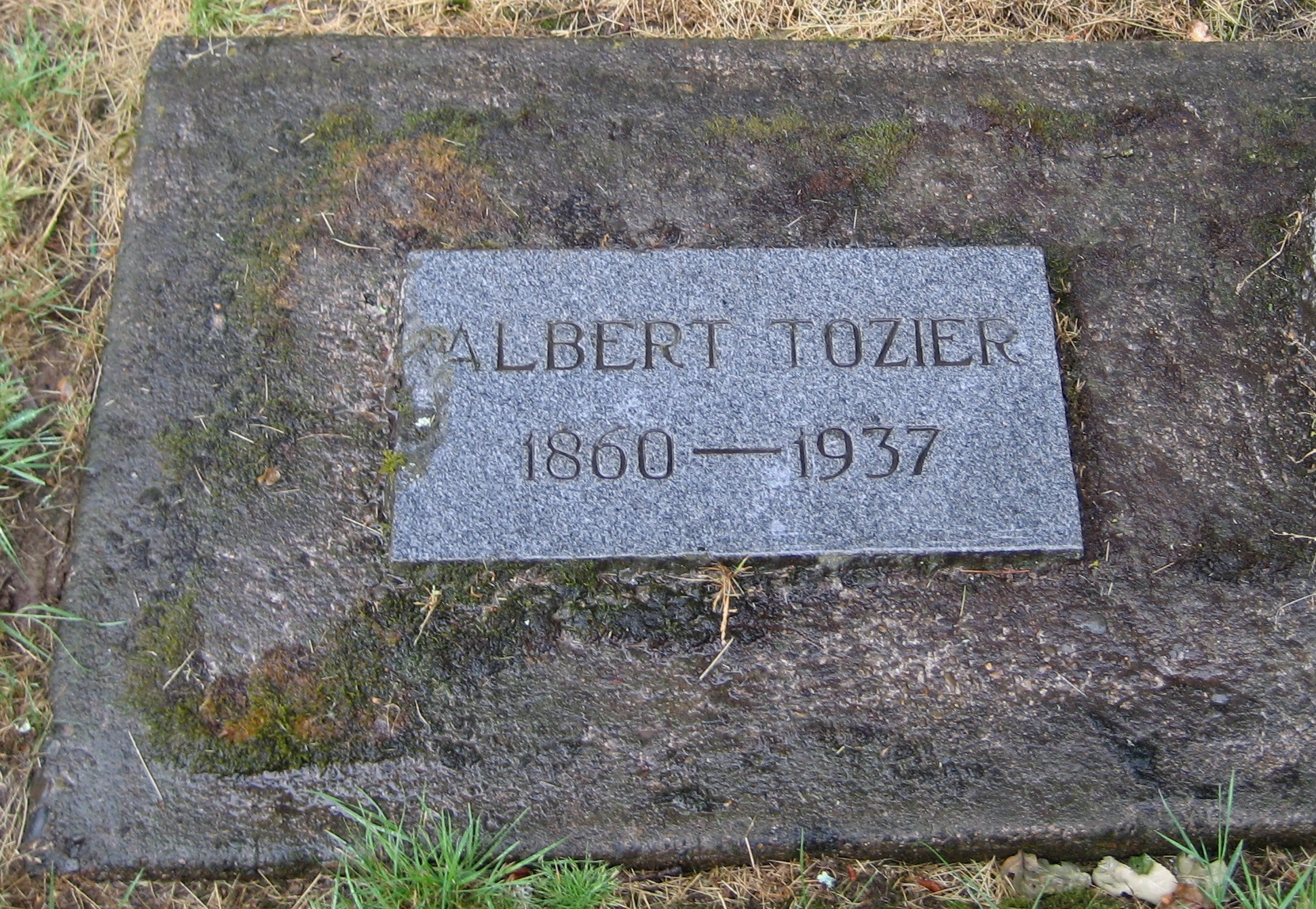 Grave marker of Albert E. Tozier at Hillsboro Pioneer Cemetery, Oregon, USA.